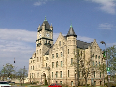 Photo I shot of the county courthouse in Lawrence, Kansas